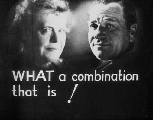 Frame from the public domain trailer for MGM's 1930 film Min and Bill showing Dressler and Beery and their names in type